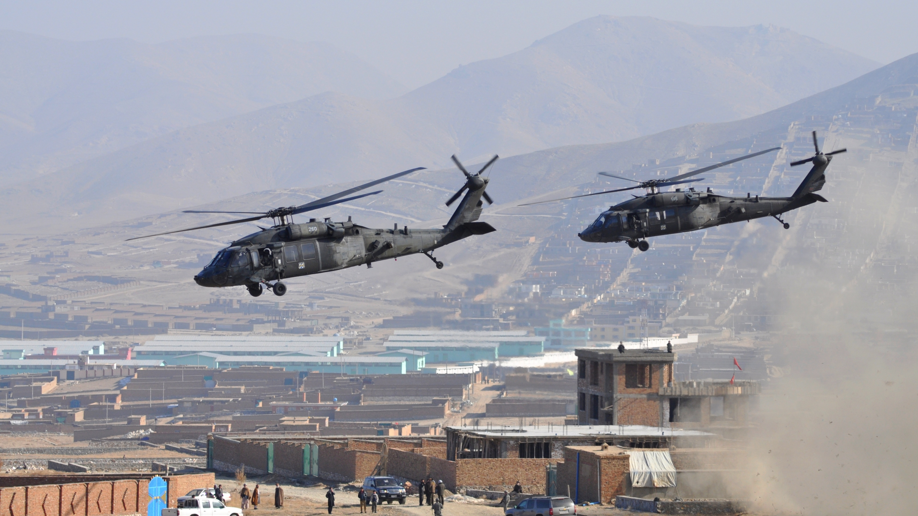 Photo by Crawford Wilson of the United States of America.